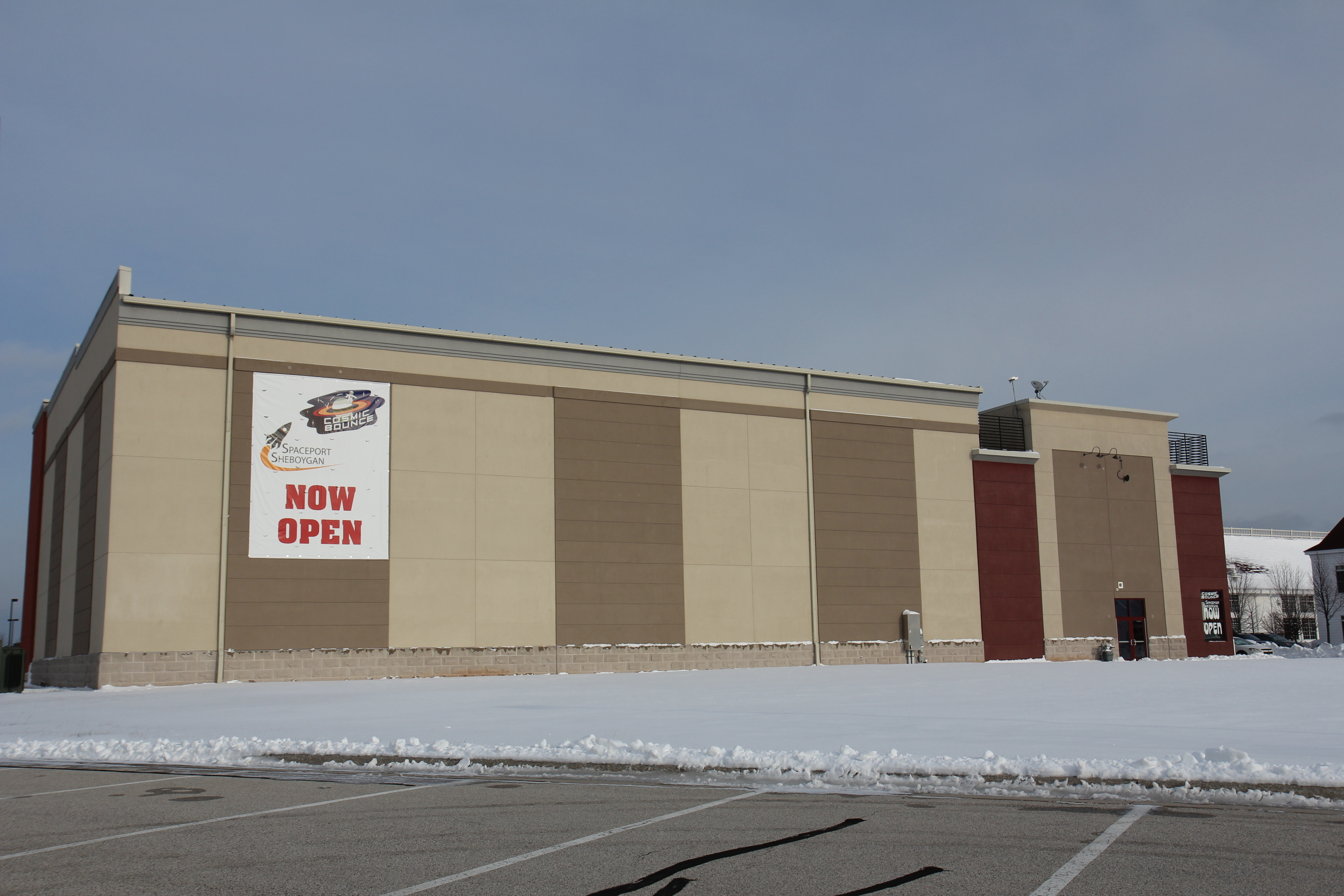 The side of the Spaceport Sheboygan building.